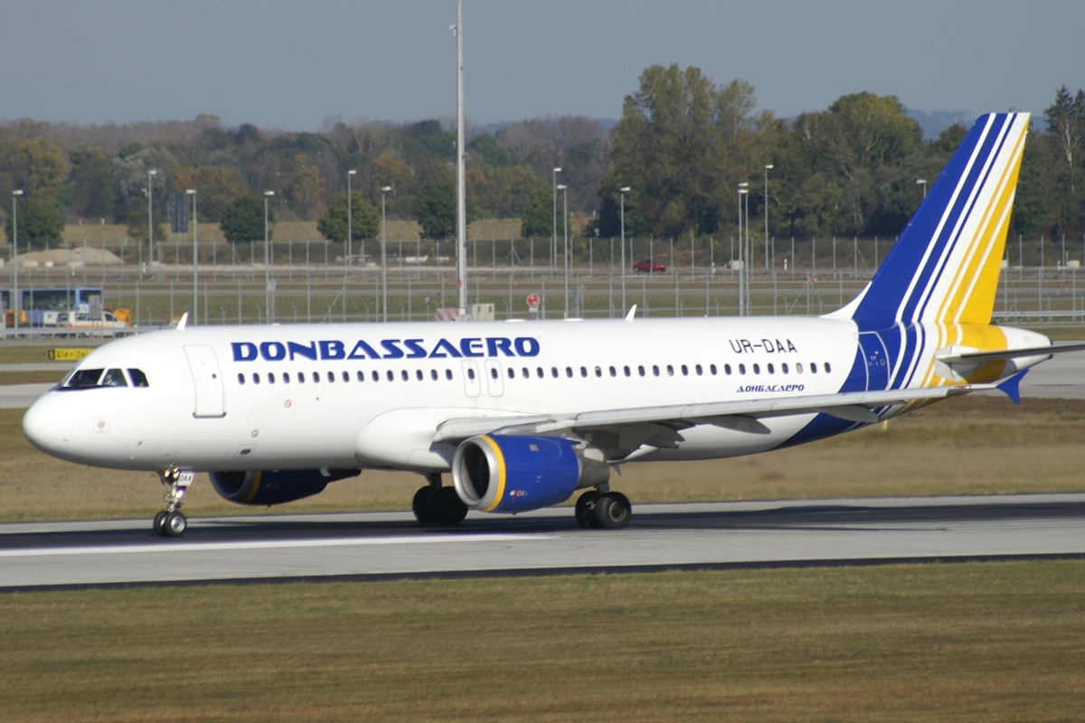 DonbassAero Airbus A320-211 aircraft UR-DAA at Munich Airport